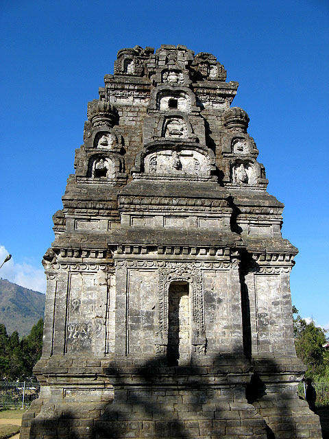 C. Bima is located about 1 km south on the road from C. Gatotkaca. The roof, its most remarkable feature, displays numerous sculpted Shiva heads looking out from horseshoe arches. The decoration originates in South India, for example, the Pancha Rathas in Mamallapuram and Galaganatha in Pattadakal. This photo shows the west side, which is the back of the temple.